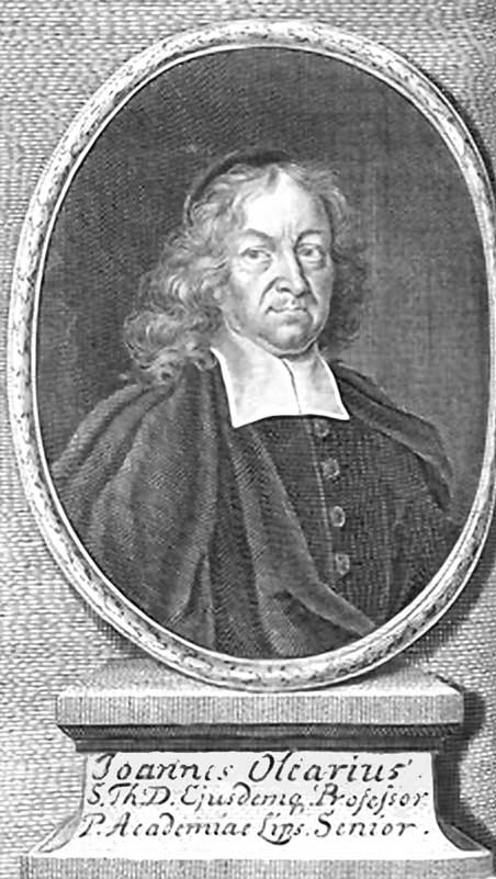 Johannes Olearius (1639-1713) Protestant theologians from Germany